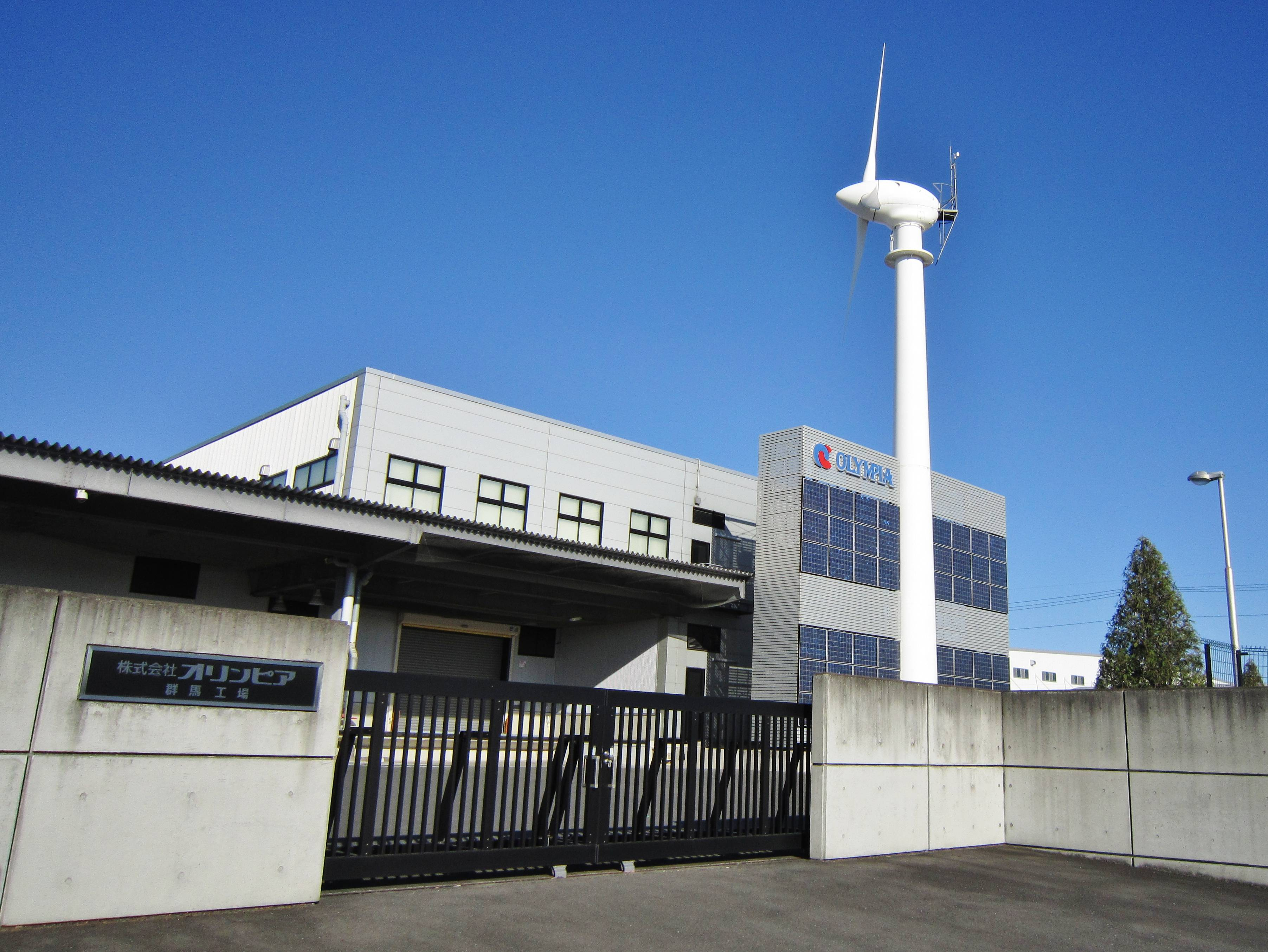 Olympia Gunma factory.